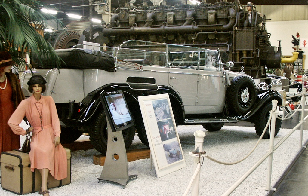 1938 110PS 3 axle Mercedes Benz G-4, used during the annexation of Austria, on display at Technikmuseum Sinsheim